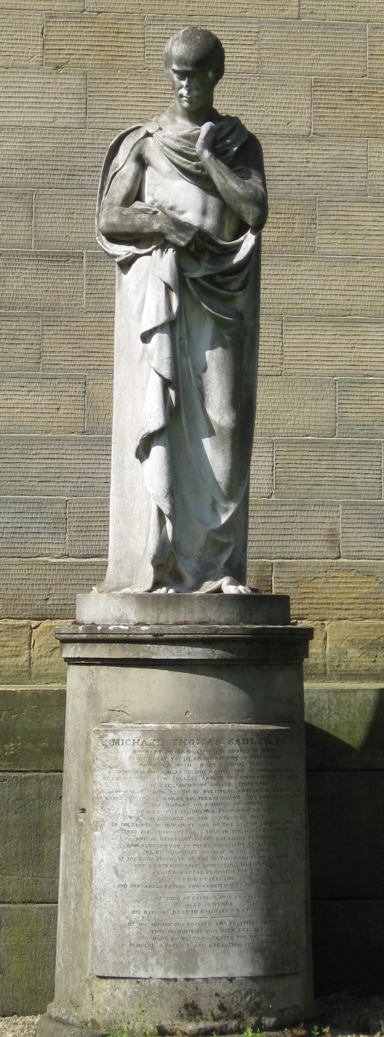 Monument to philanthropist Michael Thomas Sadler beside the chapel in Woodhouse Cemetery, Leeds. The inscription includes the following: He died at Belfast, July 29th 1835. His remains rest in Ballylesson Churchyard